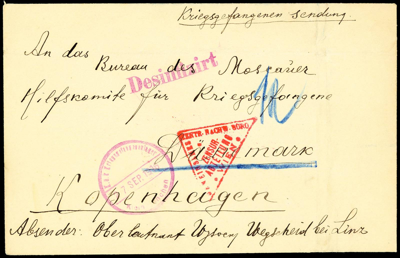 7 Sep 1916 cancel on envelope from the Prisoner of War camp at Wegscheid bei Linz, Austria, sent by an interred Russian soldier, to the Russian POW Committee in Copenhagen, Denmark. Large straightline “Desinfizirt” marking (42 x 7mm) in the same color ink as the departure cancel. Sent via Vienna, with red triangle censor hand-stamp. Probably disinfected against Spanish Influenza